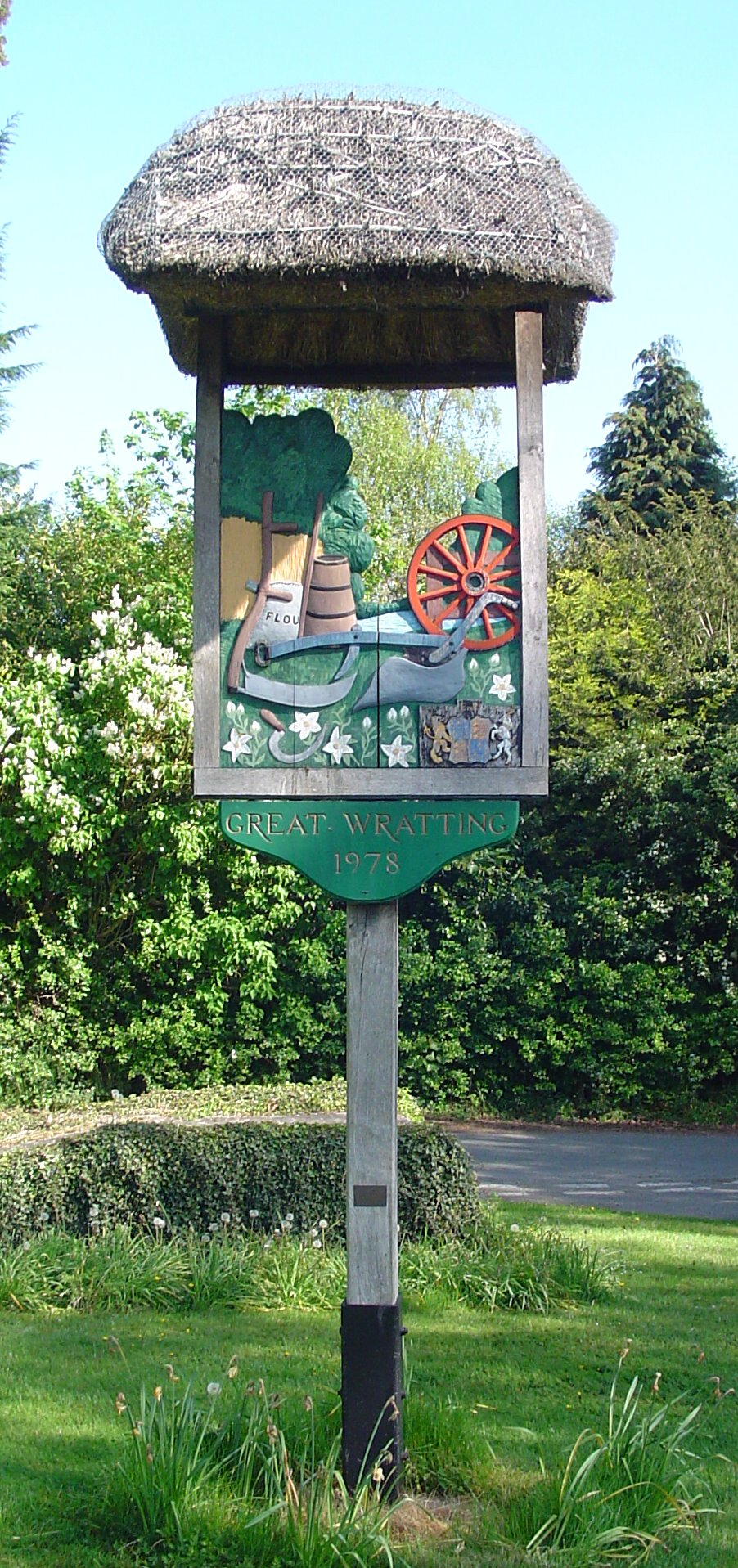 Signpost in Great Wratting